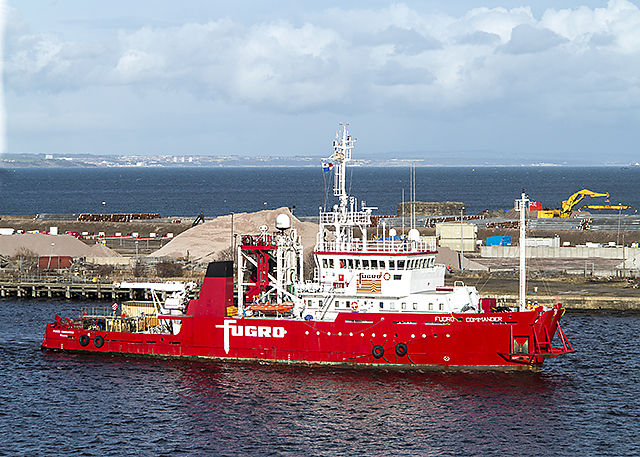 The Fugro Commander at Leith Harbour. This is a multi-purpose vessel that undertakes cable and pipeline route surveys and renewable energy development.